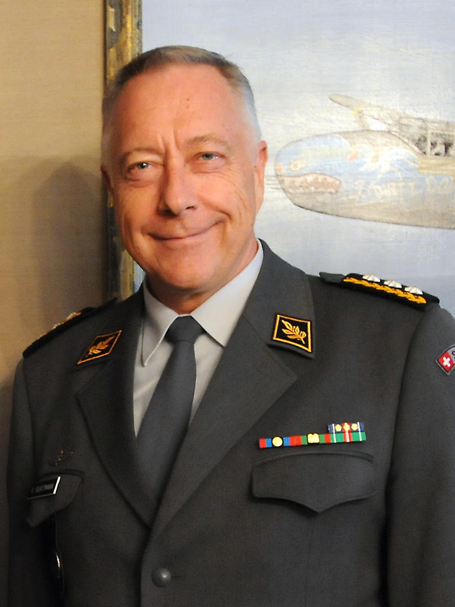 Portrait of André Blattmann, former Chief of the Swiss Armed Forces (2008-2016).